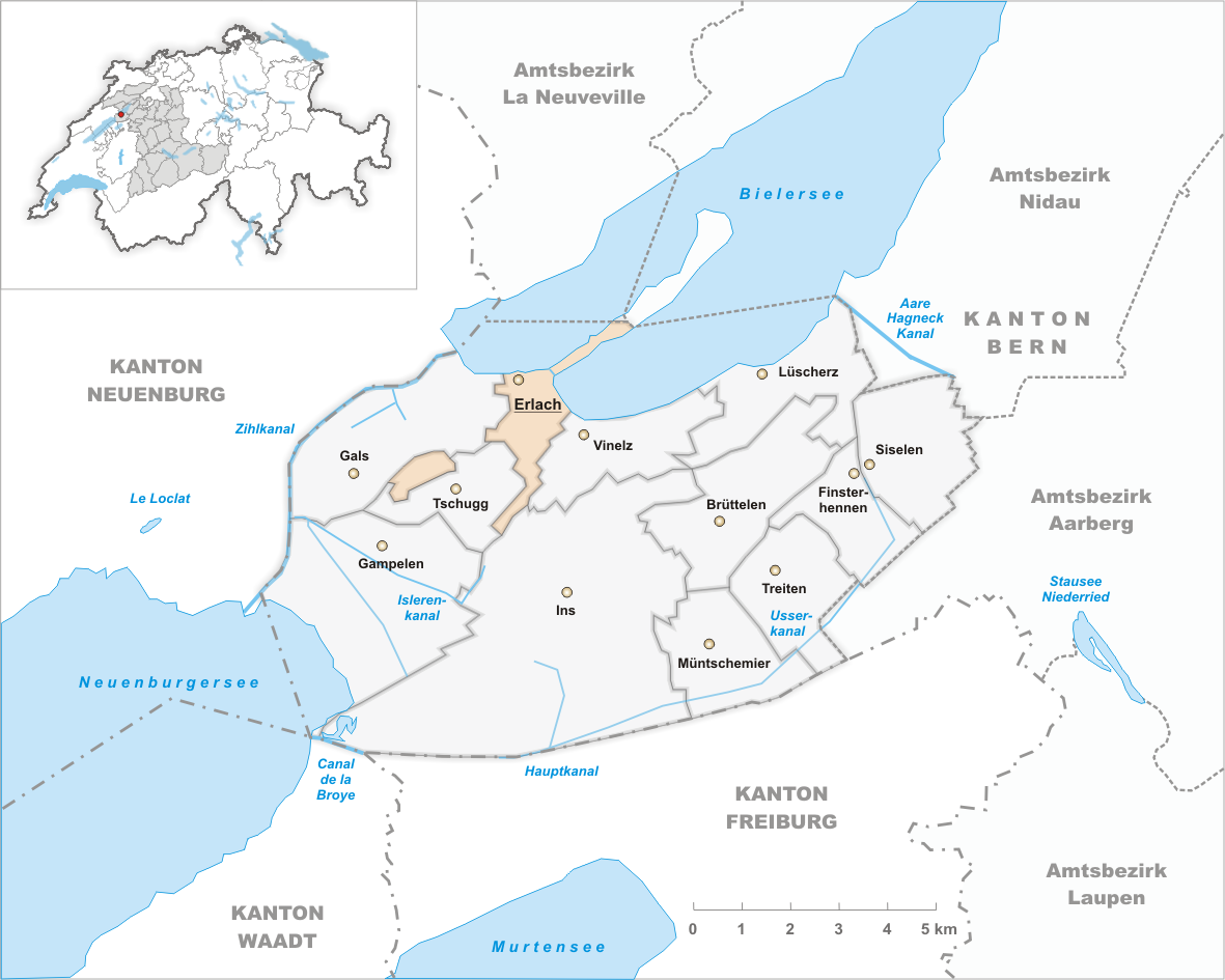 Municipality Erlach